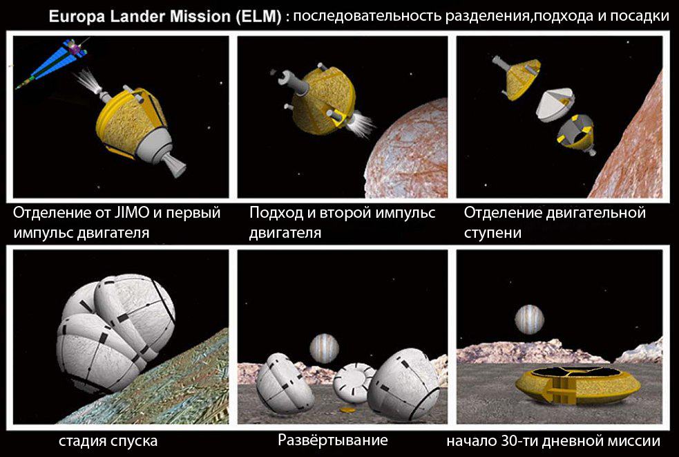 Europa Lander Mission launched from JIMO spacecraft and dropped on Europa surface